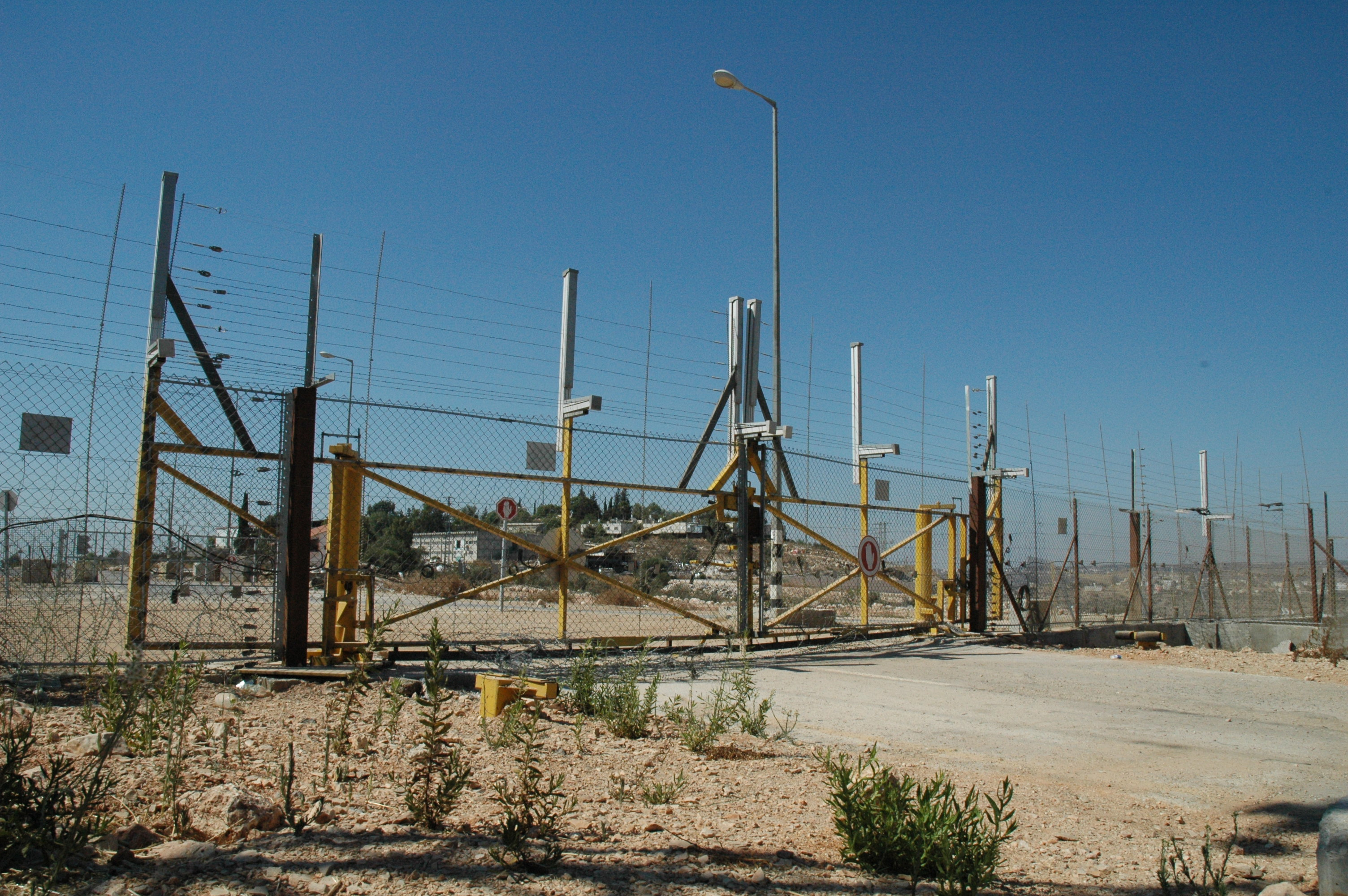 The Israeli gate near Mas'Ha.